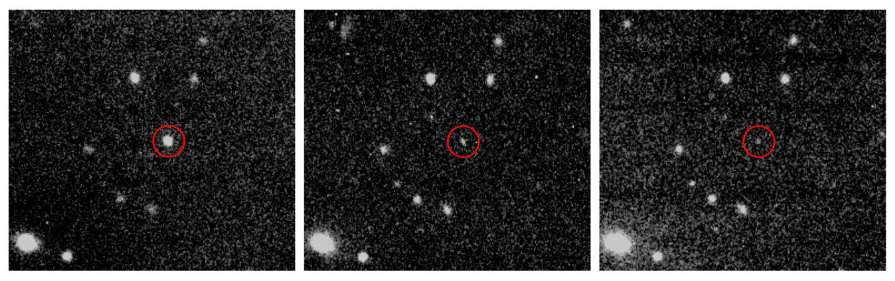 Discovery image (left panel) of the afterglow of GRB 050904 taken with the 4.1m Southern Observatory for Astrophysical Research (SOAR) telescope at infrared wavelengths. The afterglow can be seen fading away on subsequent nights (right panels, also from SOAR).